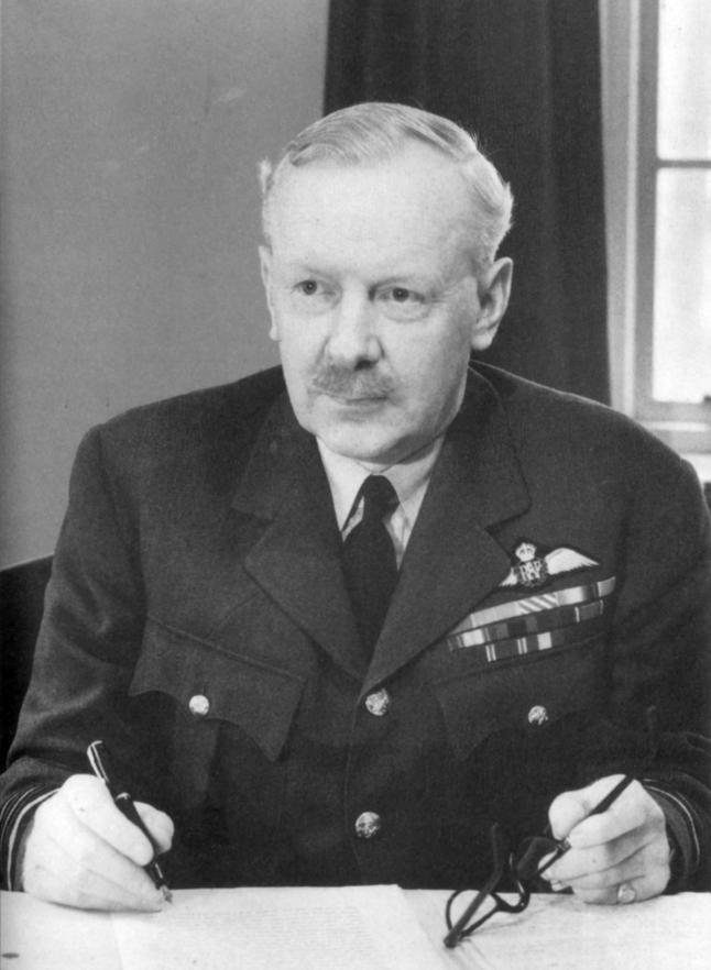 This image is a digitized photograph of Air Marshal Arthur Travers Harris seated at a desk, during World War II. The image was taken from which bore the copyright notice: Crown Copyright 2003 and © Deltaweb International Ltd 2003. Deltaweb International Ltd's web site ( states that they first formed in 1993, long after this photograph was taken, and so the extent of their copyright claim cannot cover this photograph; it presumably relates to the design of the page in which this photograph sat. Therefore this photograph is now in the public domain.